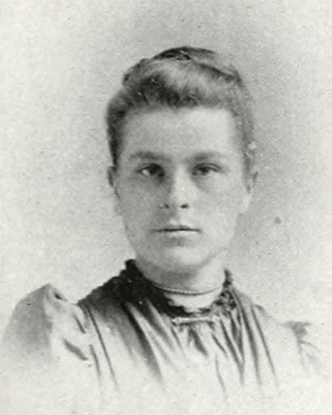 Alice Cordelia Morse, ca. 1893